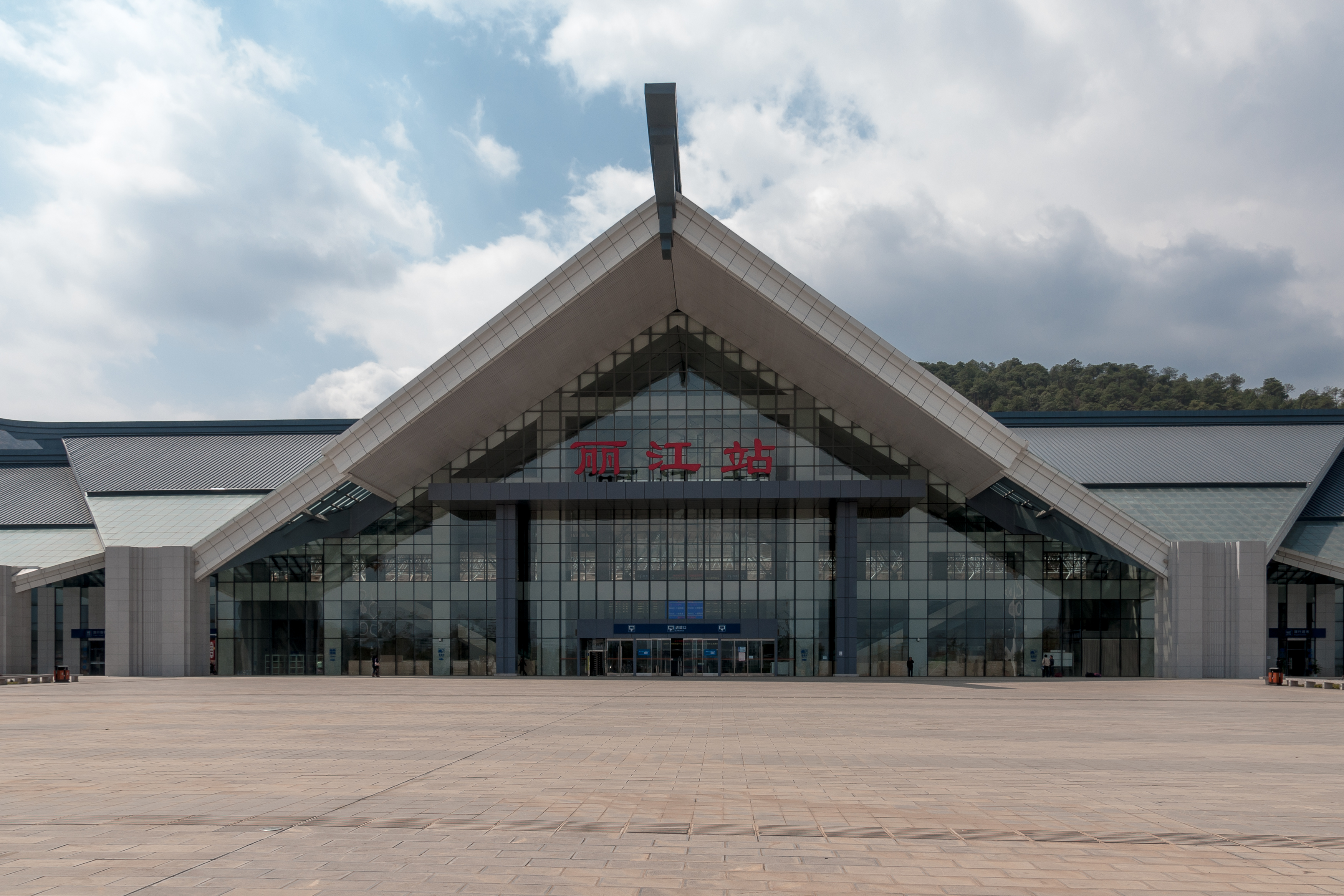 Lijiang, Yunnan, China: New railway station. Architectural design: School of Architecture of Southwest Jiaotong University by order of the Chinese Ministry of Railways